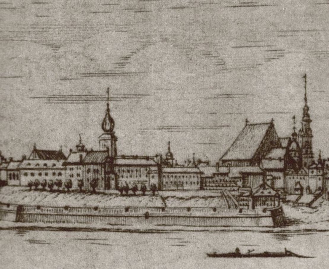 Royal Castle in Warsaw, 1641. Prince-Bishop's palace situated on the northern bastion of the Warsaw's Royal Castle fortifications.